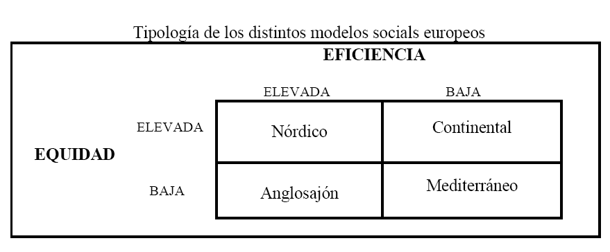 Characteristics of the different european social models. Done using open office by user Jorditxei.